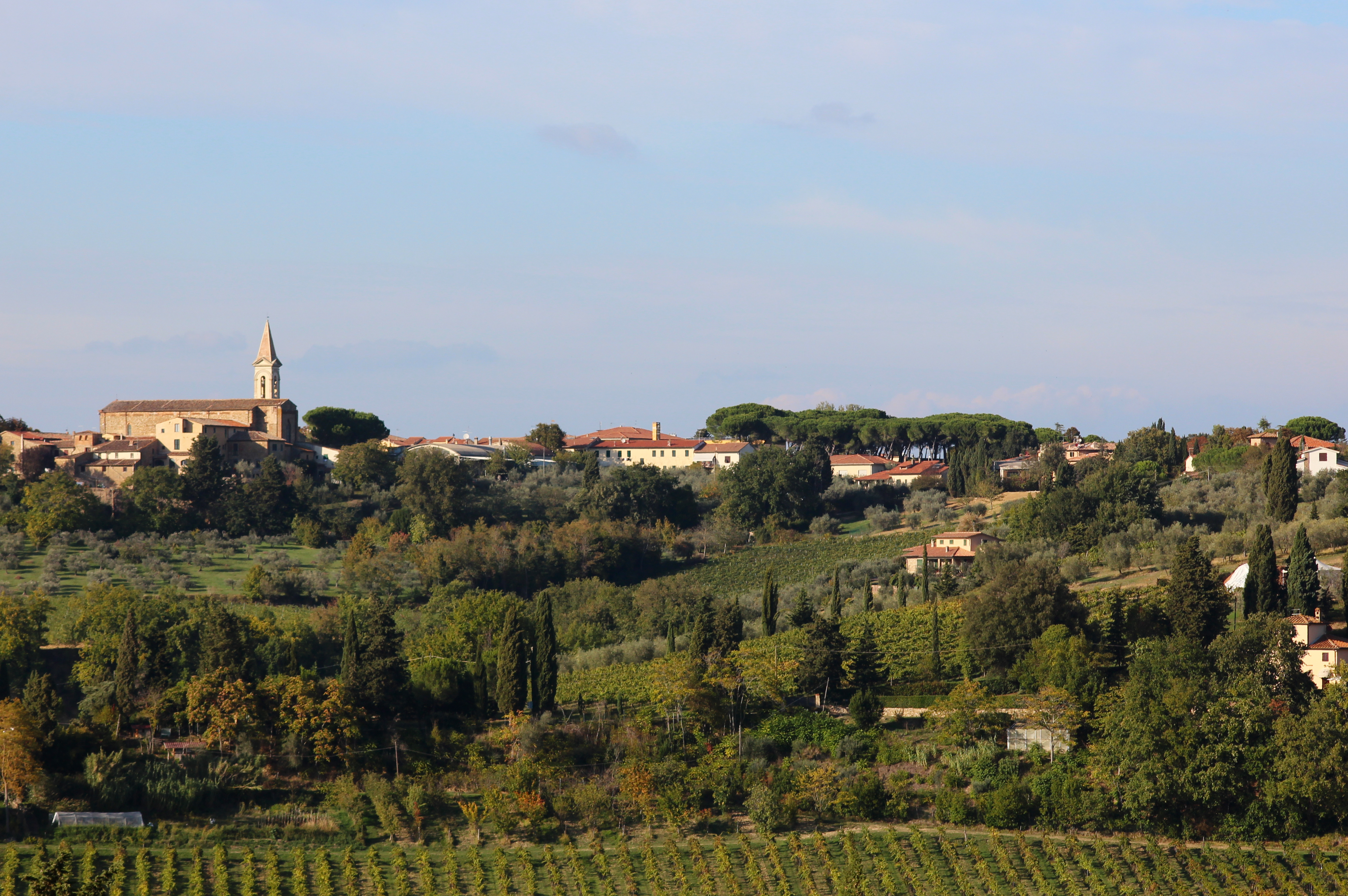 Panorama of Tavarnelle Val di Pesa, Metropolitan City of Florence, Tuscany, Italy